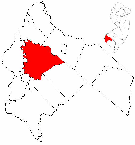 Map of Salem County highlighting Mannington Township